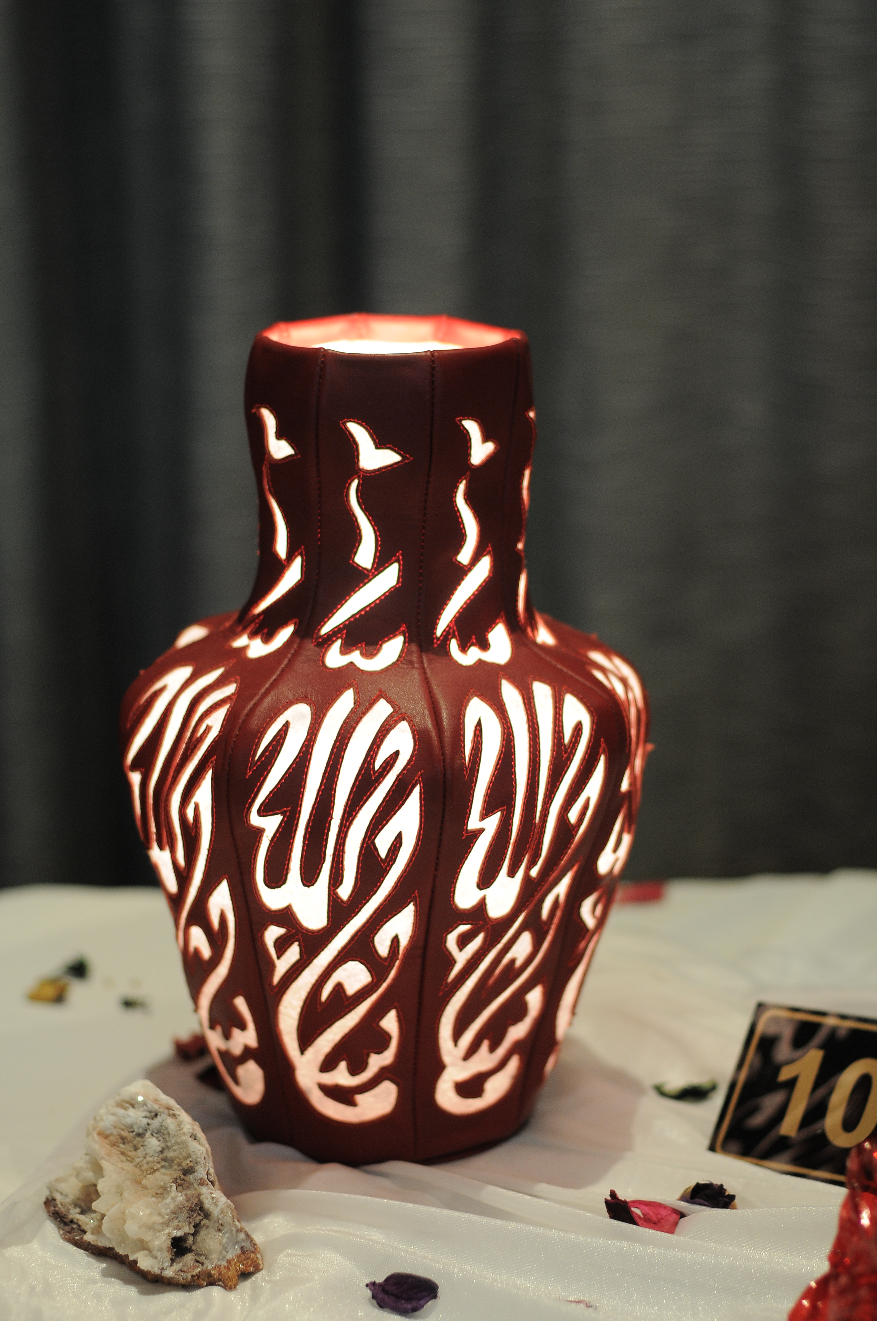 Créativité Tunisien 2012